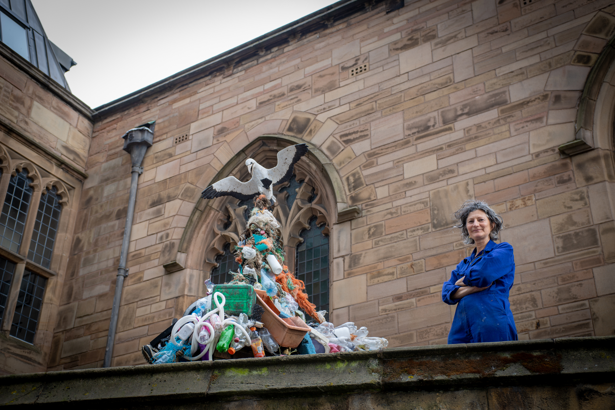 Tidal Shame by Gail Dooley, sculpture showcased in The Liverpool Plinth in 2020.